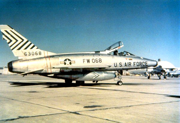 478th Tactical Fighter Squadron - North American F-100D-70-NA Super Sabre - 56-3068